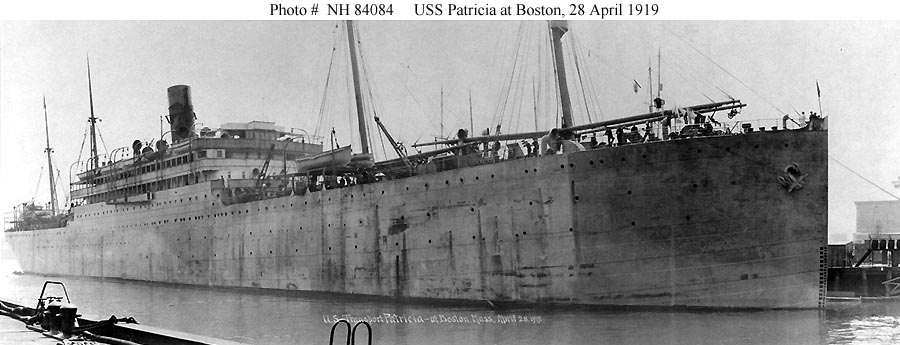 Naval Historical Foundation, U.S. Department of the Navy.